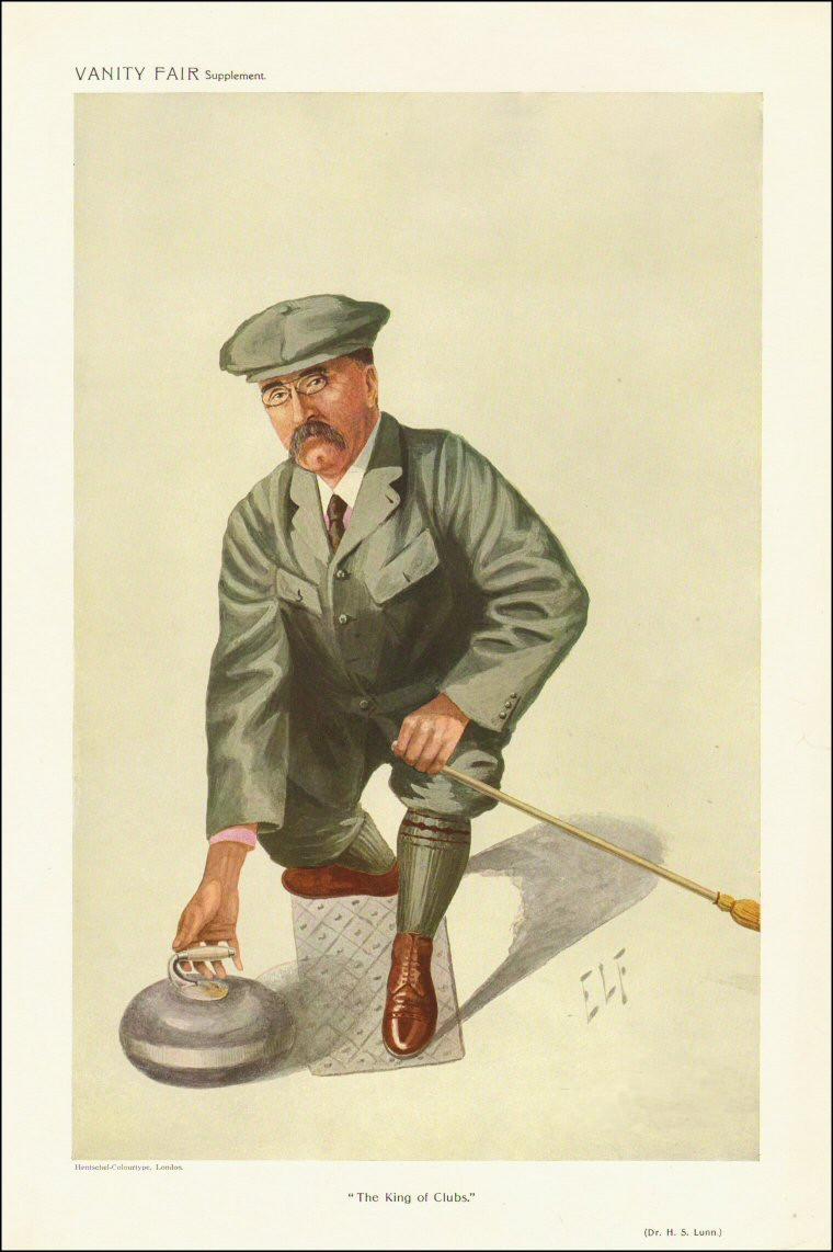 Caricature of Dr HS Lunn. Caption read "The King of Clubs".